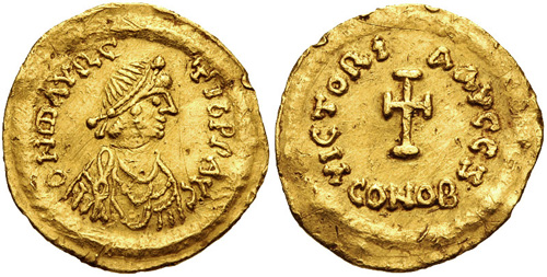 AV Tremissis (15mm, 1.43 g, 6h). Minted in Carthage (or may be in Sicily) in IY (indictional year) 7 (= 588/9 AD) during the reign of the byzantine king Maurice Tiberius (582-602 AD). Diademed, draped, and cuirrased bust right / Cross potent.